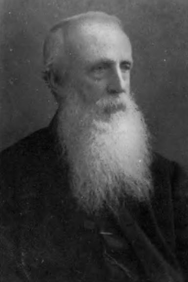 The Reverend Octavius Pickard-Cambridge, Arachnologist, around 1891